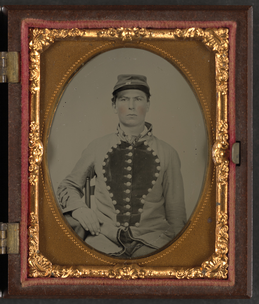 Title: Unidentified soldier of Co. D, 17th Virginia Infantry Regiment in uniform Abstract/medium: 1 photograph : hand-colored ruby ambrotype ; plate 63 x 50 mm (ninth plate format), case 76 x 65 mm.